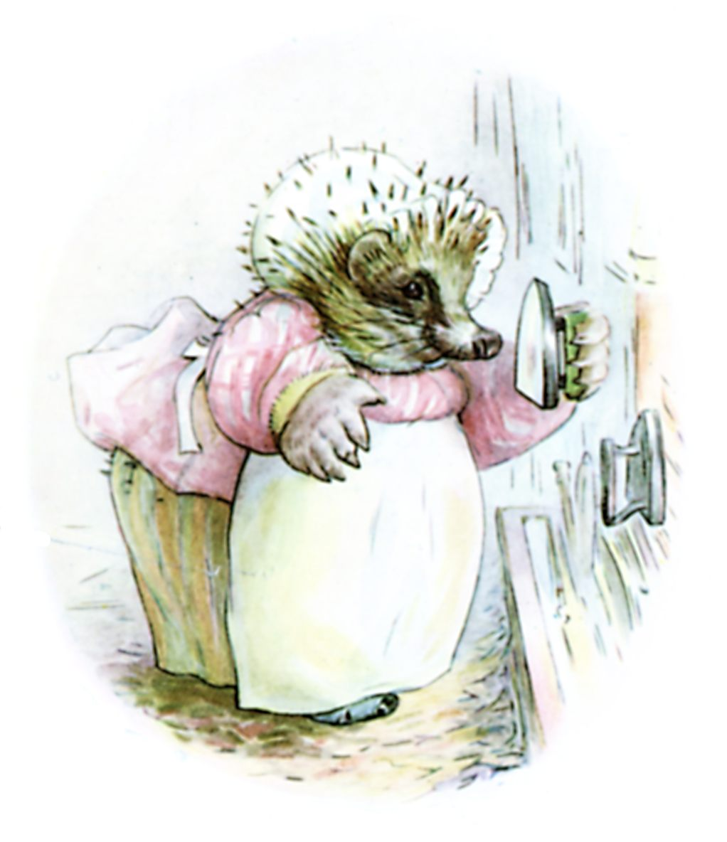 Frontispiece showing Mrs. Tiggy-Winkle and her iron, from The Tale of Mrs. Tiggy-Winkle